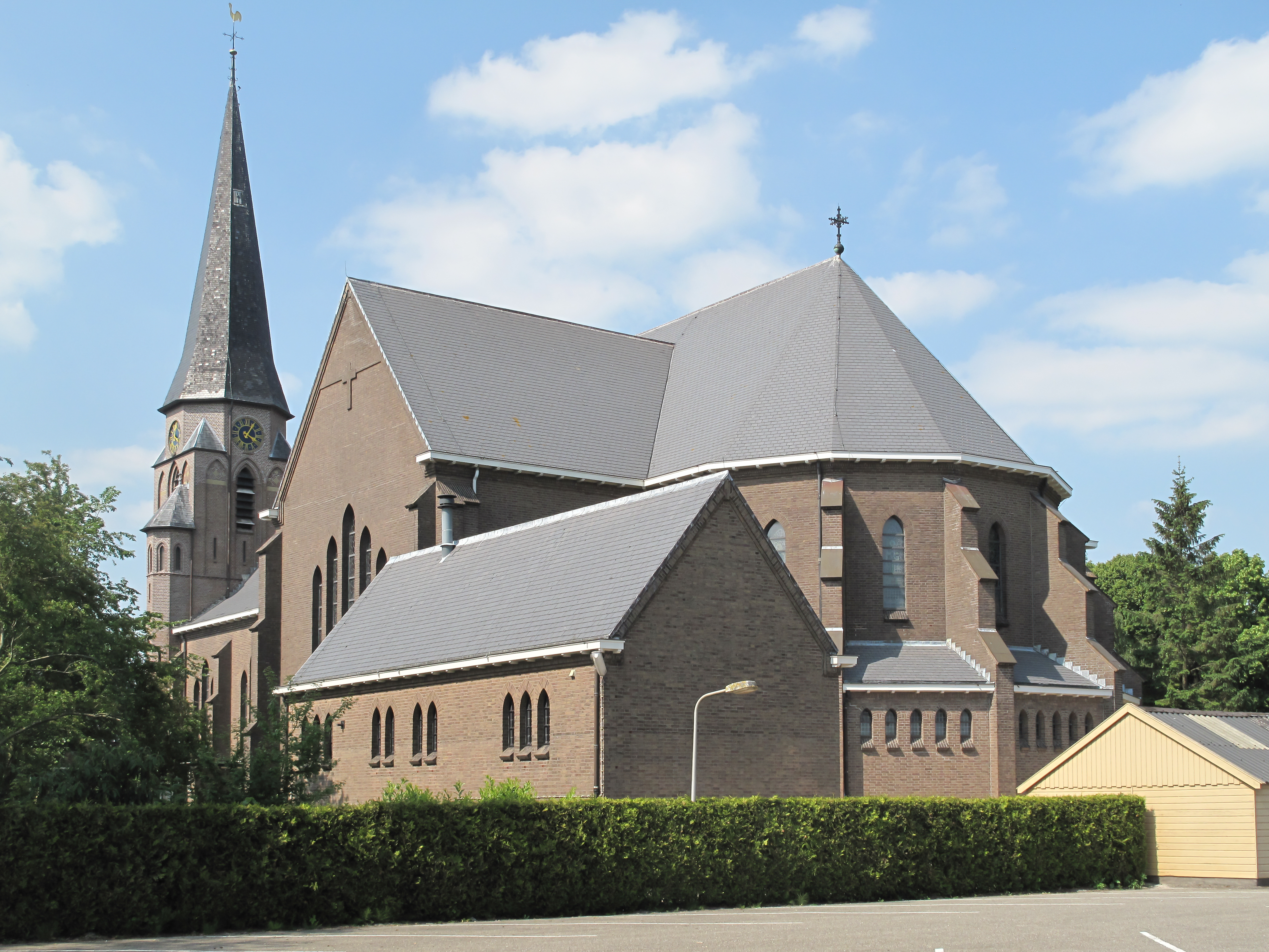 Wolvega, church: de Sint Franciscuskerk